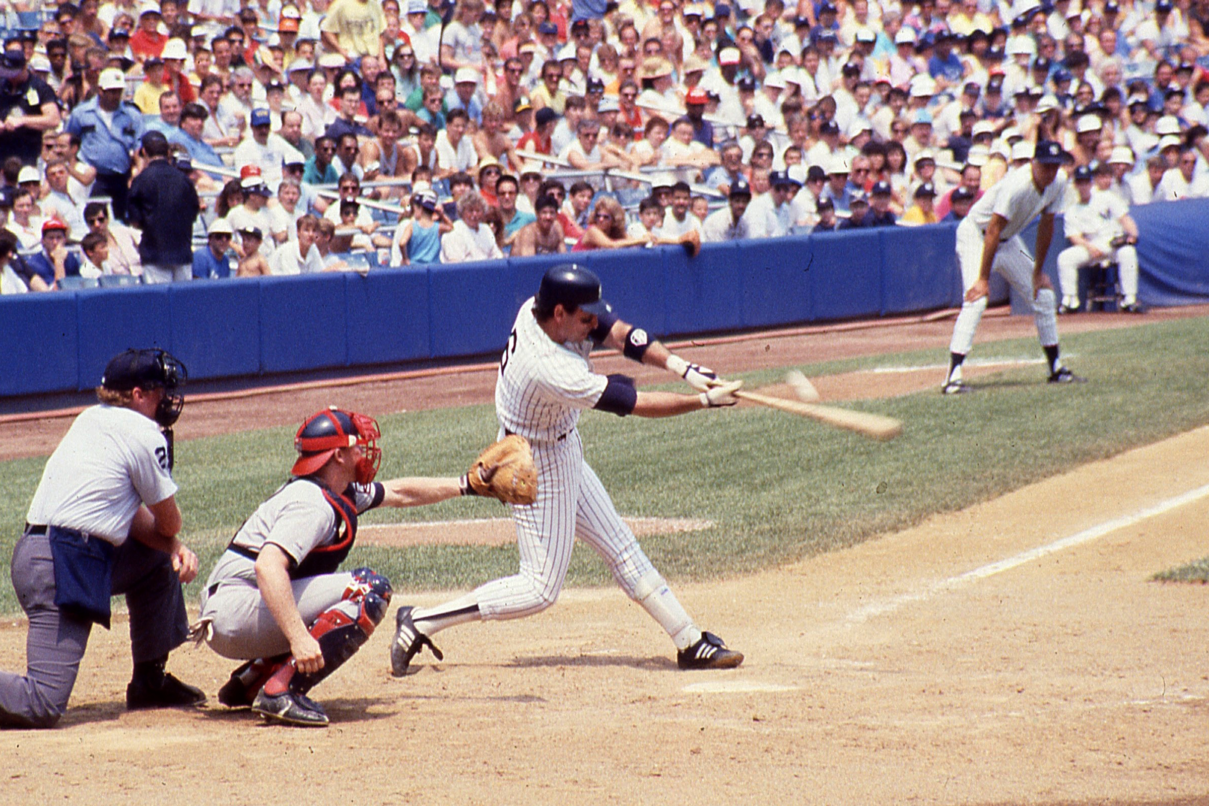 Jack Clark playing for the New York Yankees in a game against the Boston Red Sox in Yankee Stadium on September 25, 1988